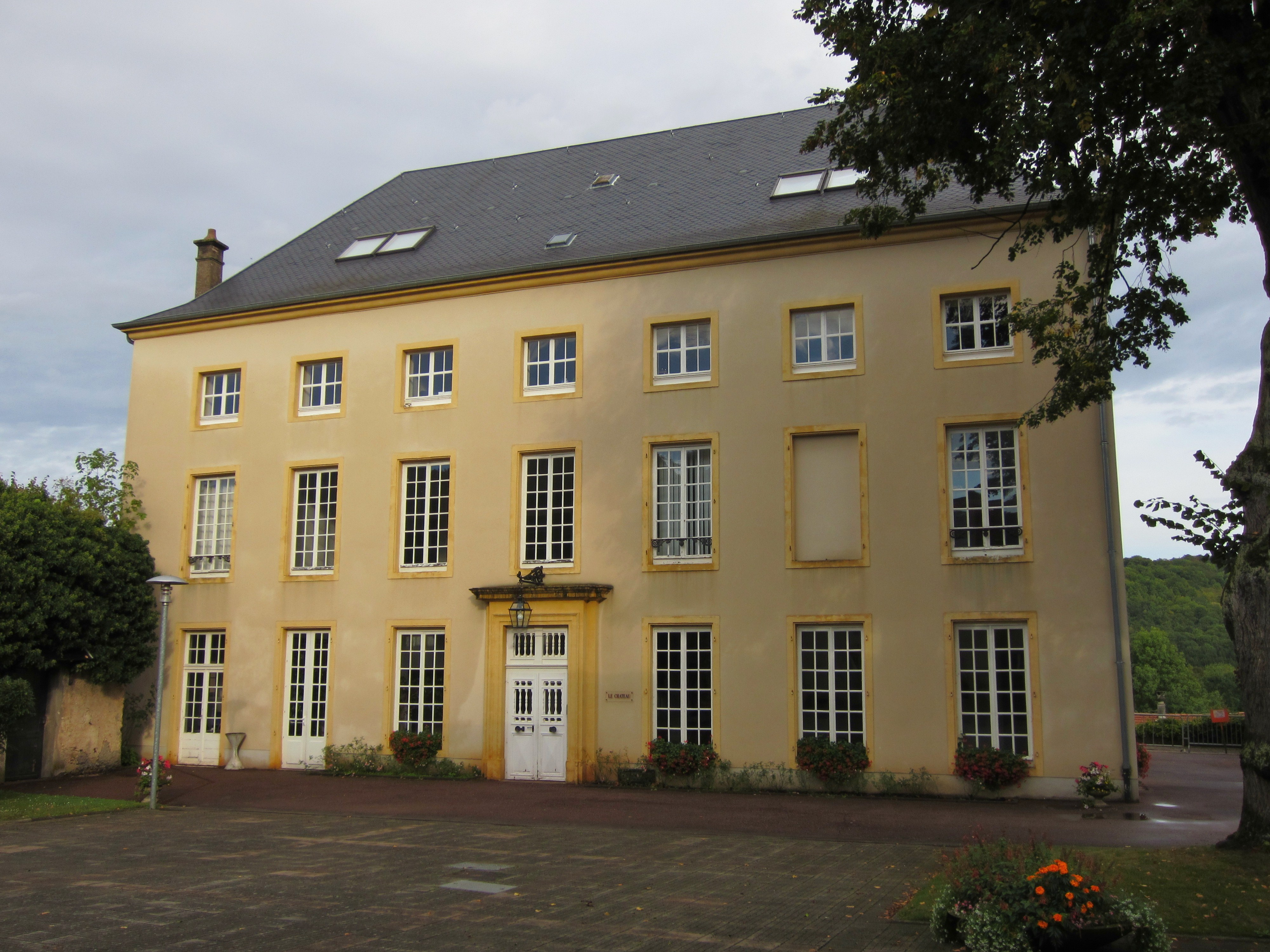 Description chateau Noveant Moselle Date12 September 2011Sourcemon appareil photoAuthorAimelaimePermission(Reusing this file) chateau Noveant Moselle